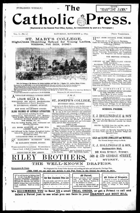 The front page of the Catholic Press on 5 November 1895.